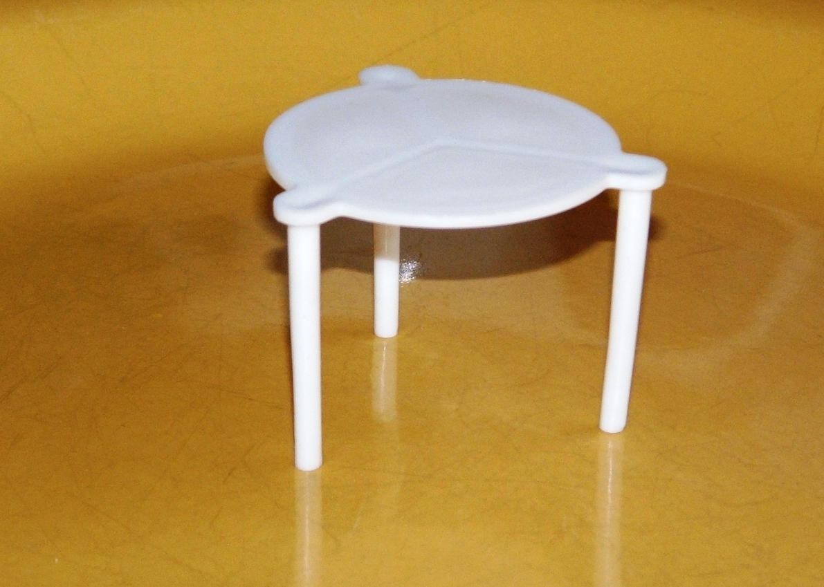 Plastic pizza saver - used to keep the top of a pizza box from contacting the pizza within